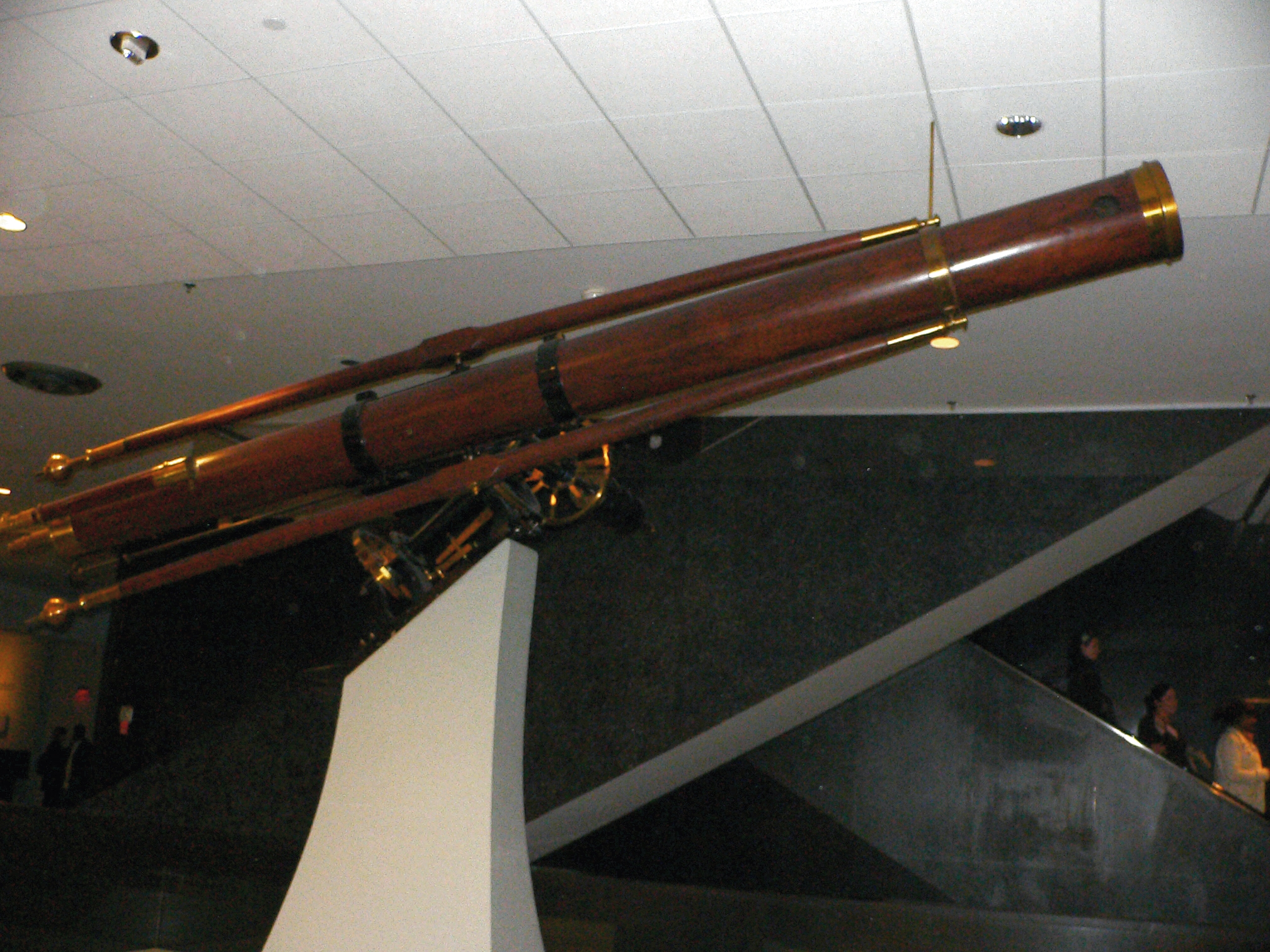 Maria Mitchell's telescope, on display in the Smithsonian Institution National Museum of American History.